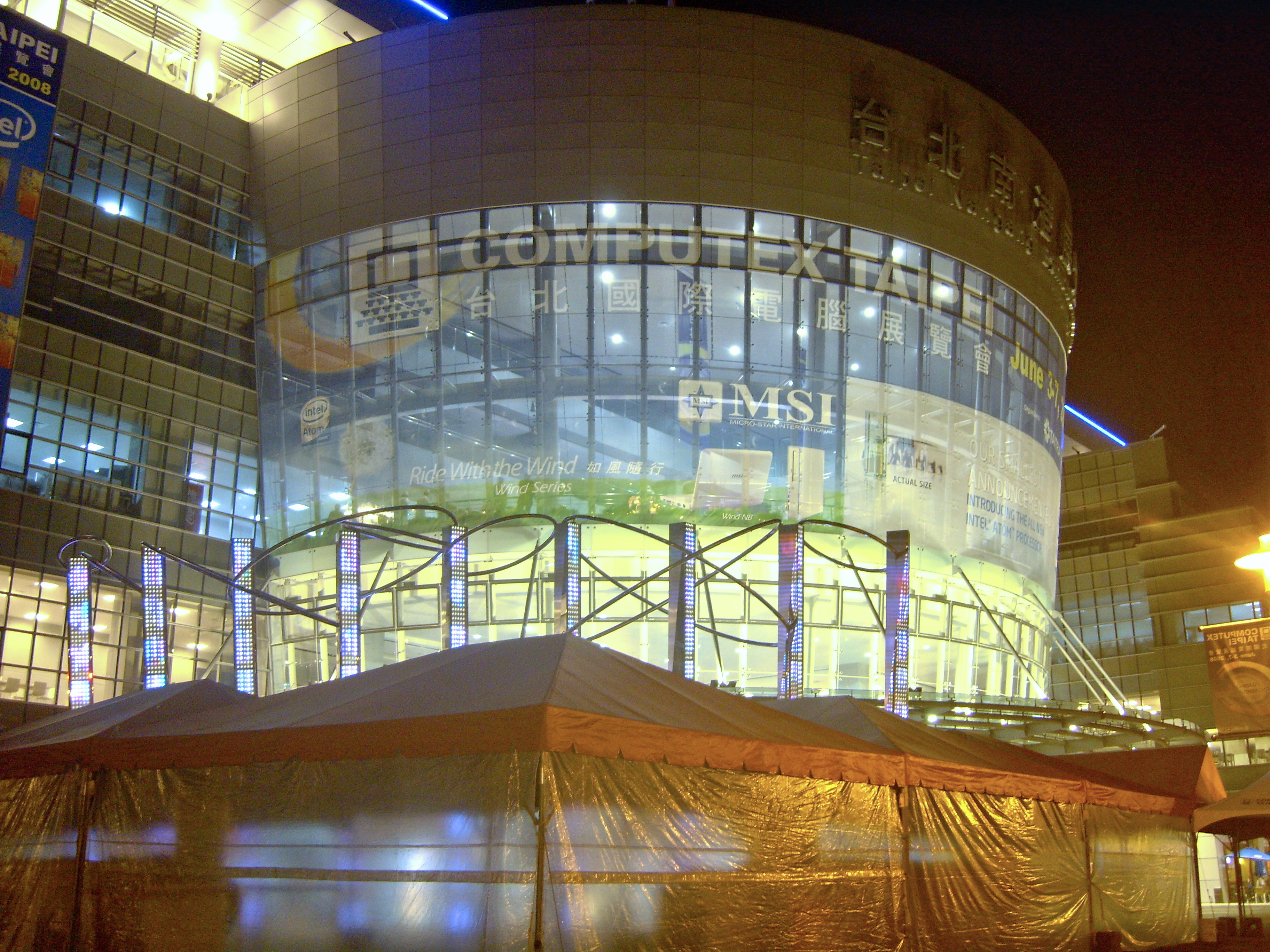 2008 Computex: TWTC Nangang in the night.